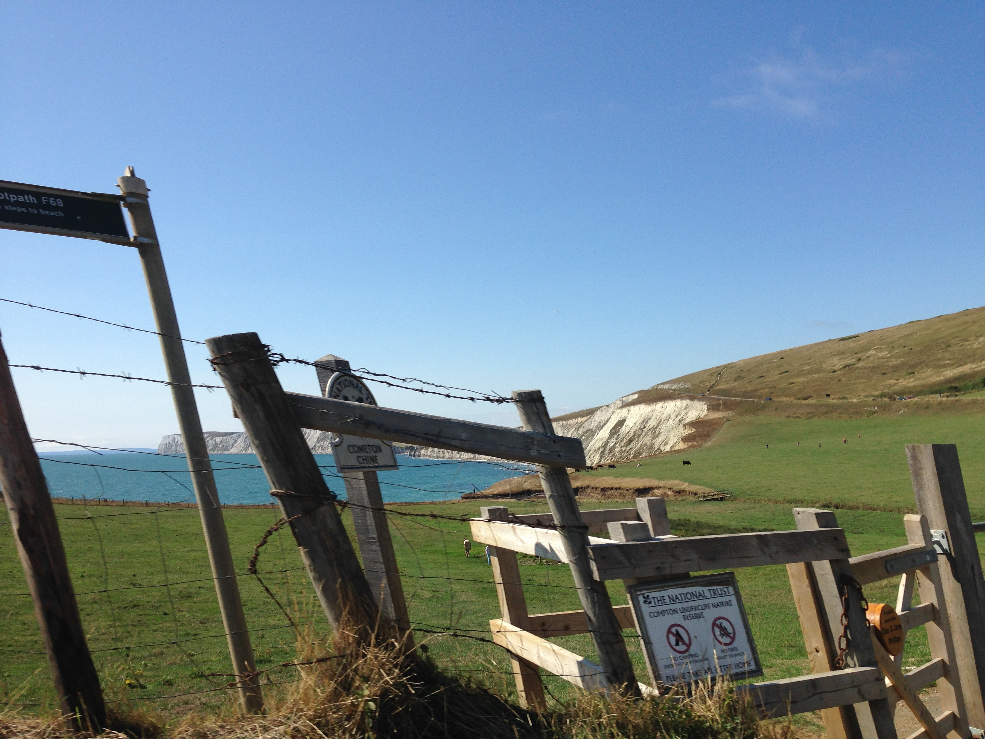 An example of the Rolling shutter effect in action at Afton Down, Isle of Wight. This photograph was taken from a car travelling at approximately 50 miles per hour, and the rolling shutter effect has resulted in the fence and gate appearing slanted while more distant objects, such as the two walkers behind the fence and Afton Down in the distance appear normal.